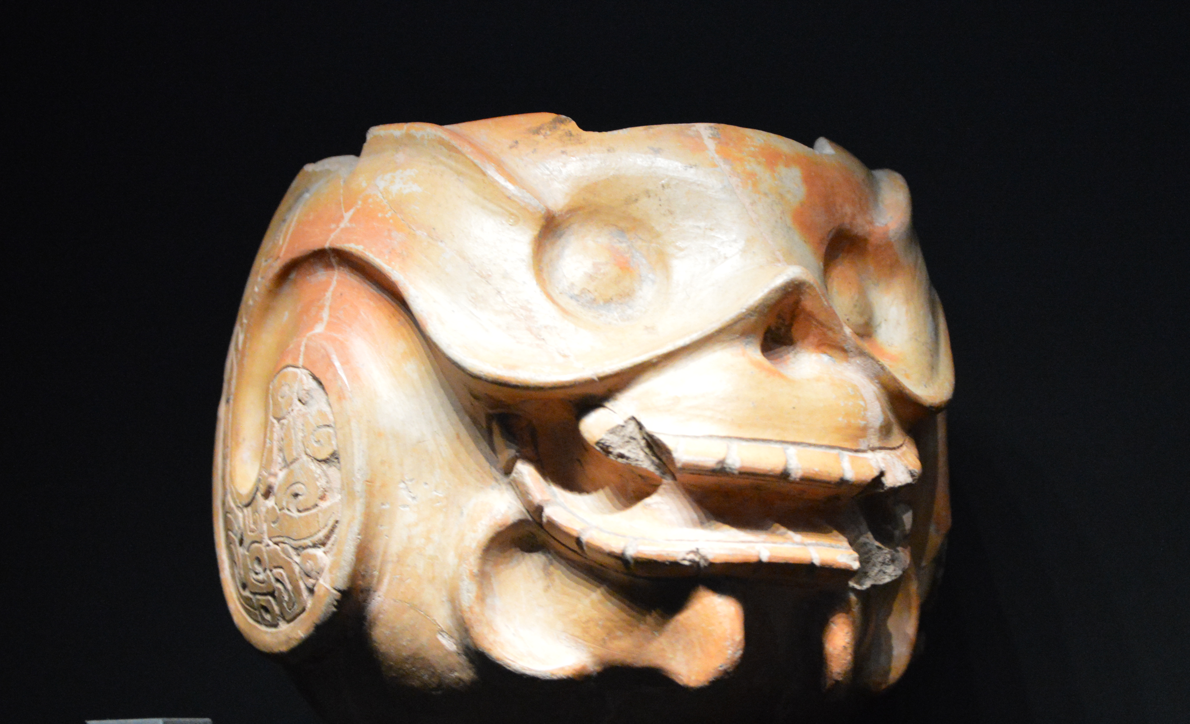 Small spherical bowl